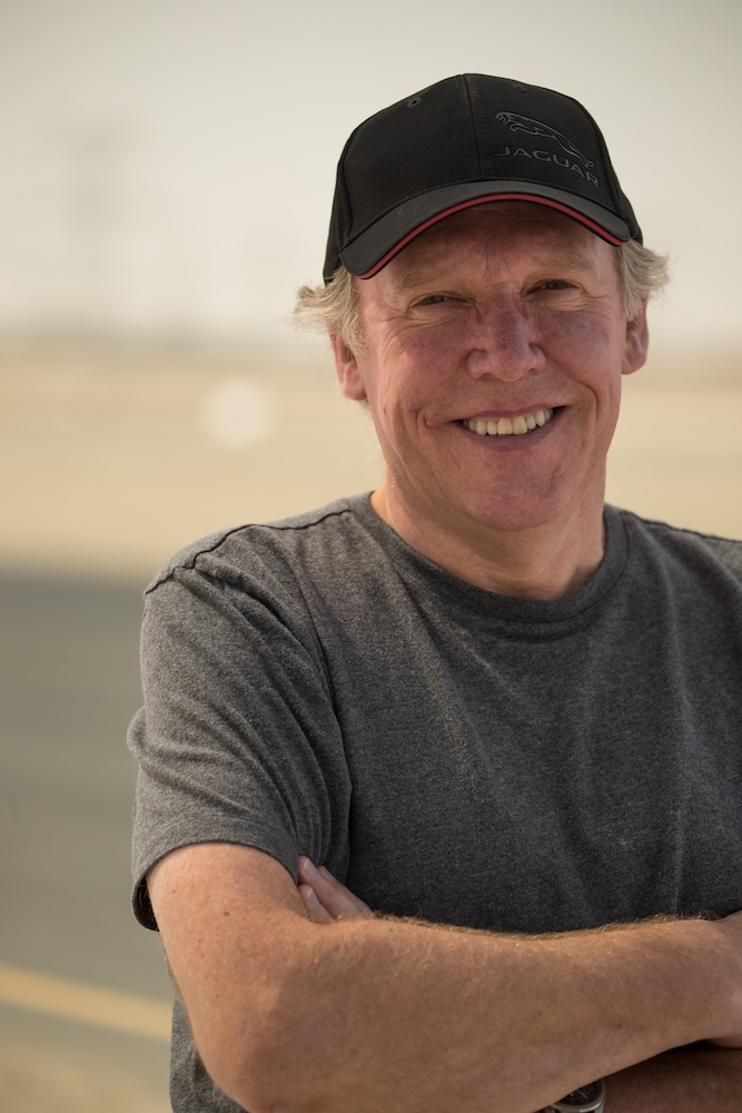 Luxury car manufacturer Jaguar today revealed to the region its C-X17 Sports Crossover Concept. The Middle East debut took place at the Dubai International Motor Show along with three other regional reveals and showcases the company’s future next-generation lightweight technology and performance driven engineering.